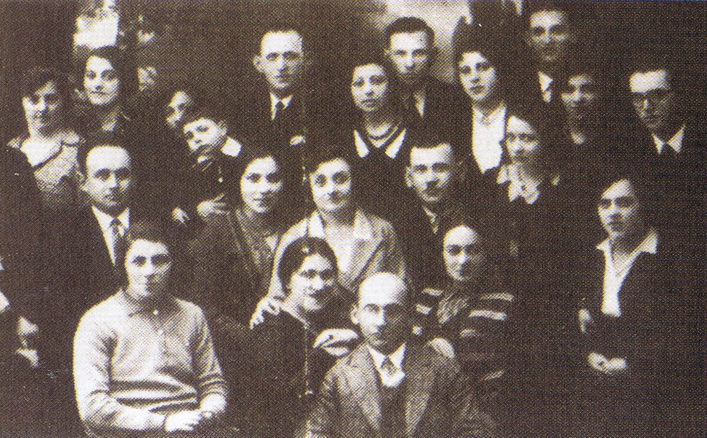 Members of the Leftist party the Poalej Syjon-Left